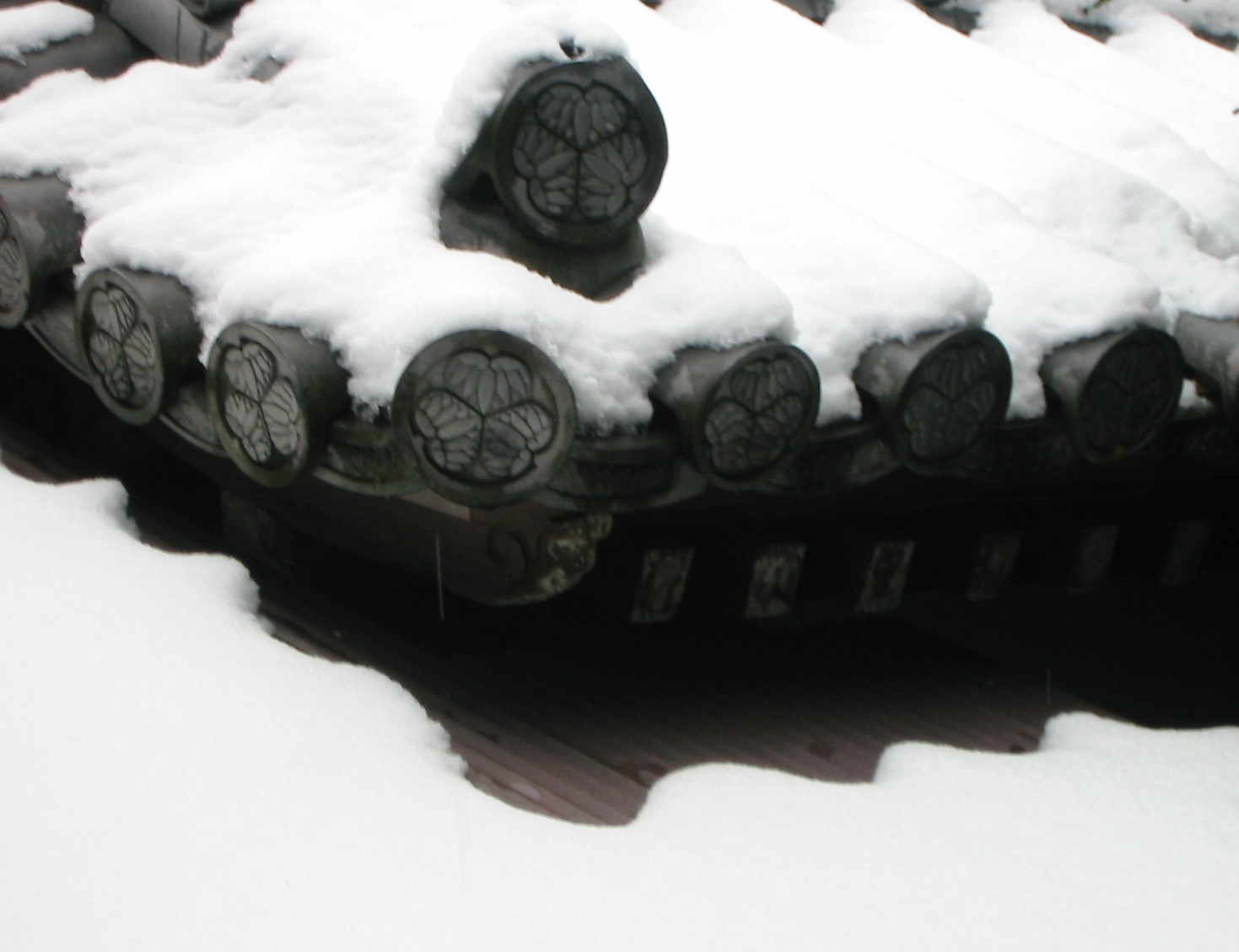 A picture of roof tiles of the Japanese temple of Chion-in. Note the hollyhock crest, which is the emblem of the Tokugawa shoguns, showing their patronage of this temple.